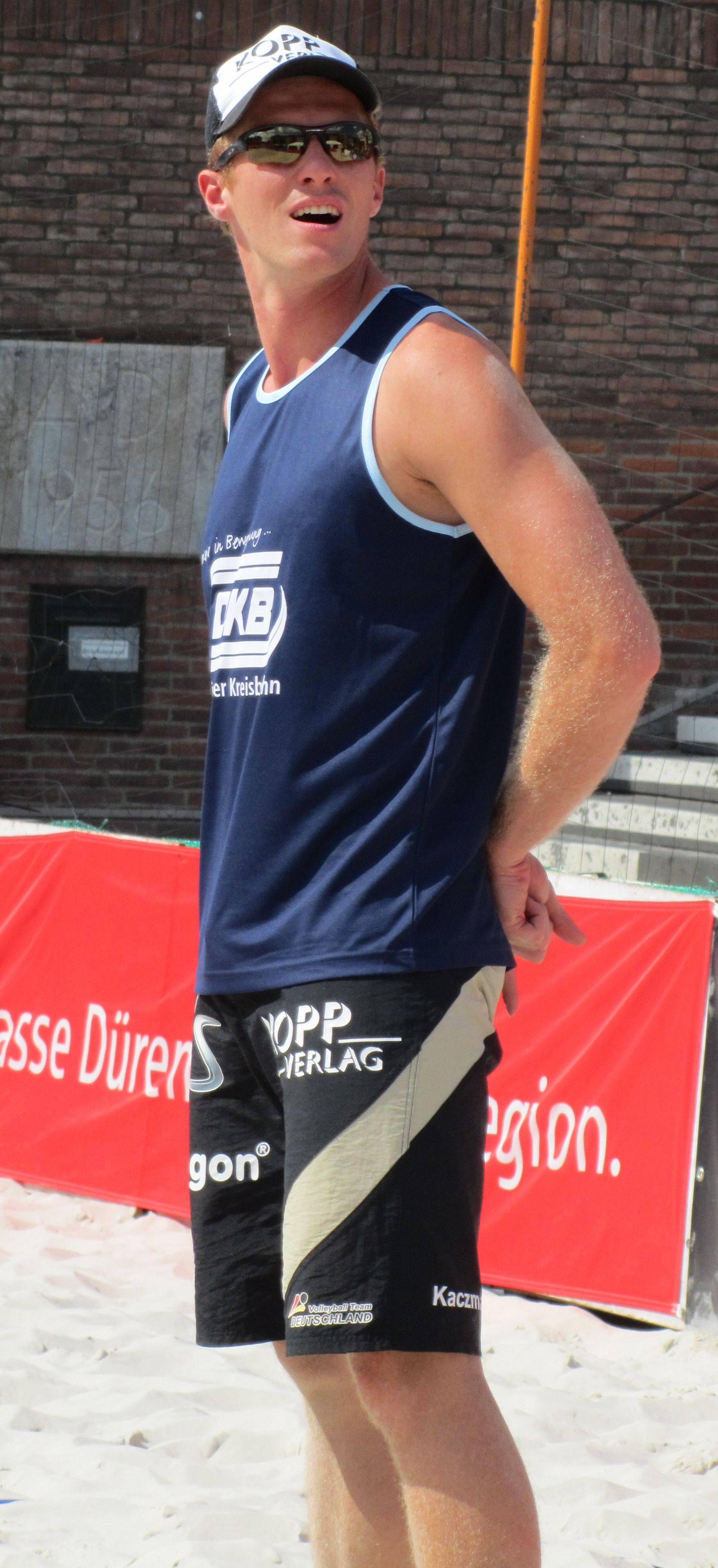 the German beach volleyball player Thomas Kaczmarek at the DKB Beach Cup 2011 in Düren, Germany